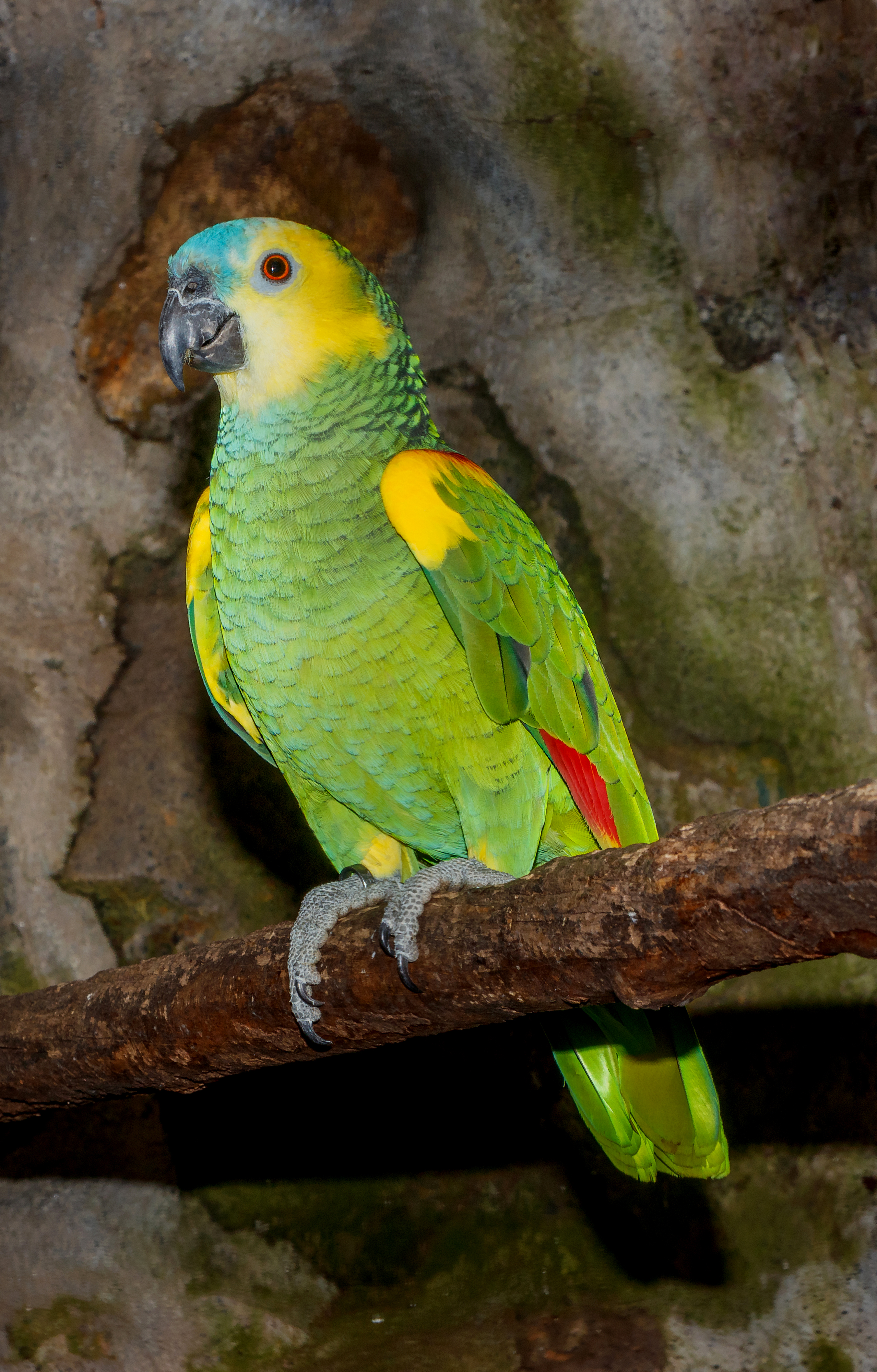 Amazona aestiva Linnaeus, 1758, Turquoise-fronted amazon; Maroparque, Breña Alta, La Palma, Canary Islands, Spain.